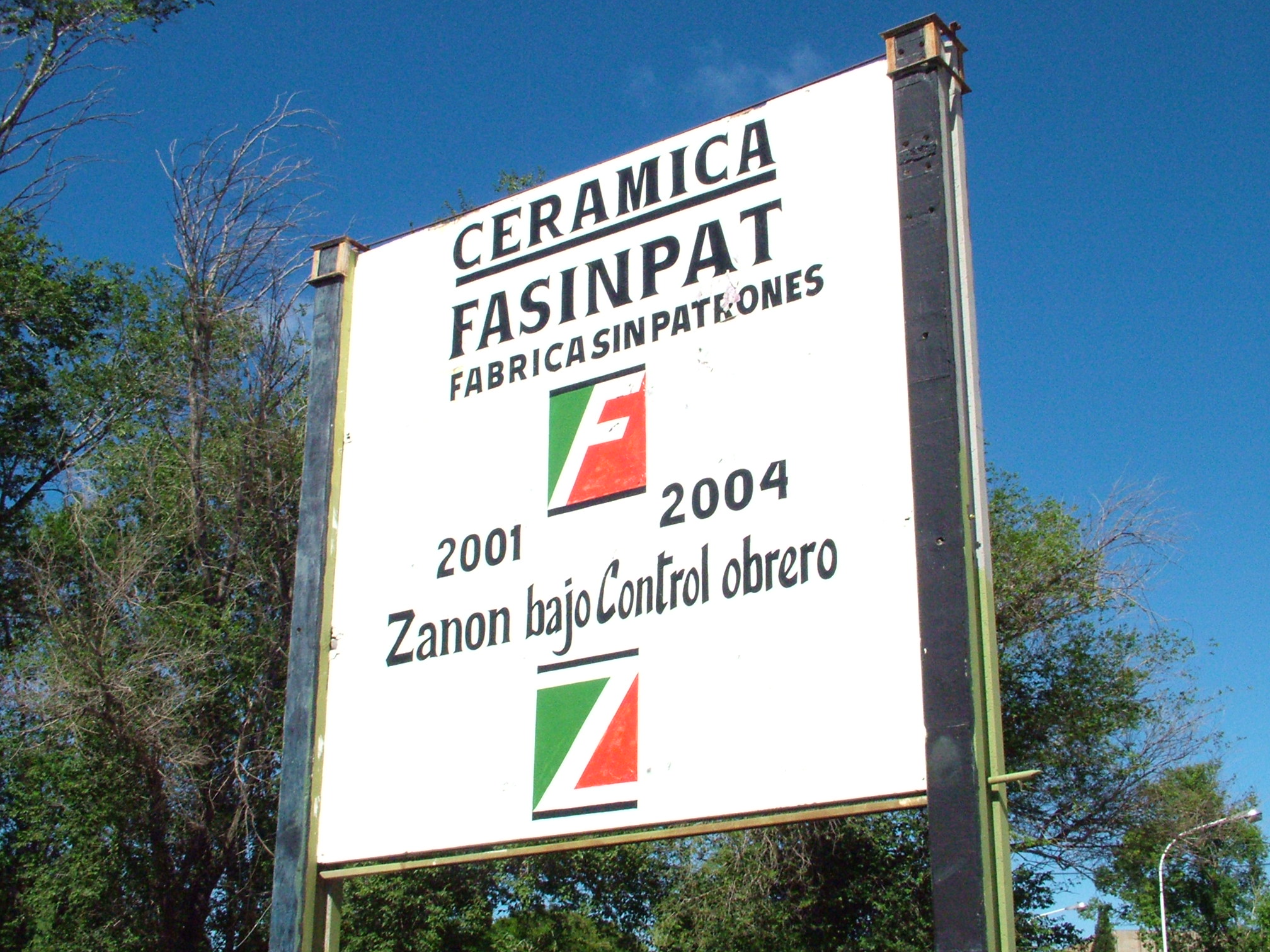 FaSinPat logo.